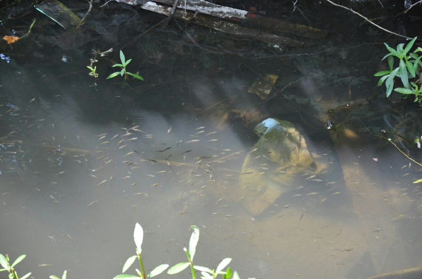 Mojarras en el Cauce Viejo del Riachuelo.